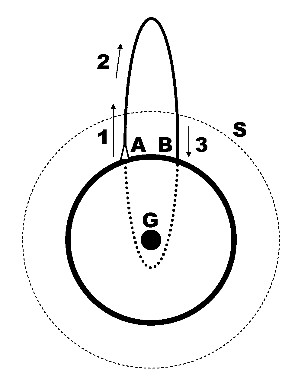 sub-orbital fly